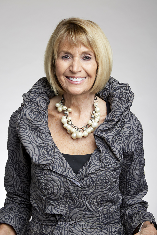 Marcia Kemper McNutt (born February 19, 1952) is an American geophysicist and President of the National Academy of Sciences (NAS) since 2016 Attribution: The Royal Society